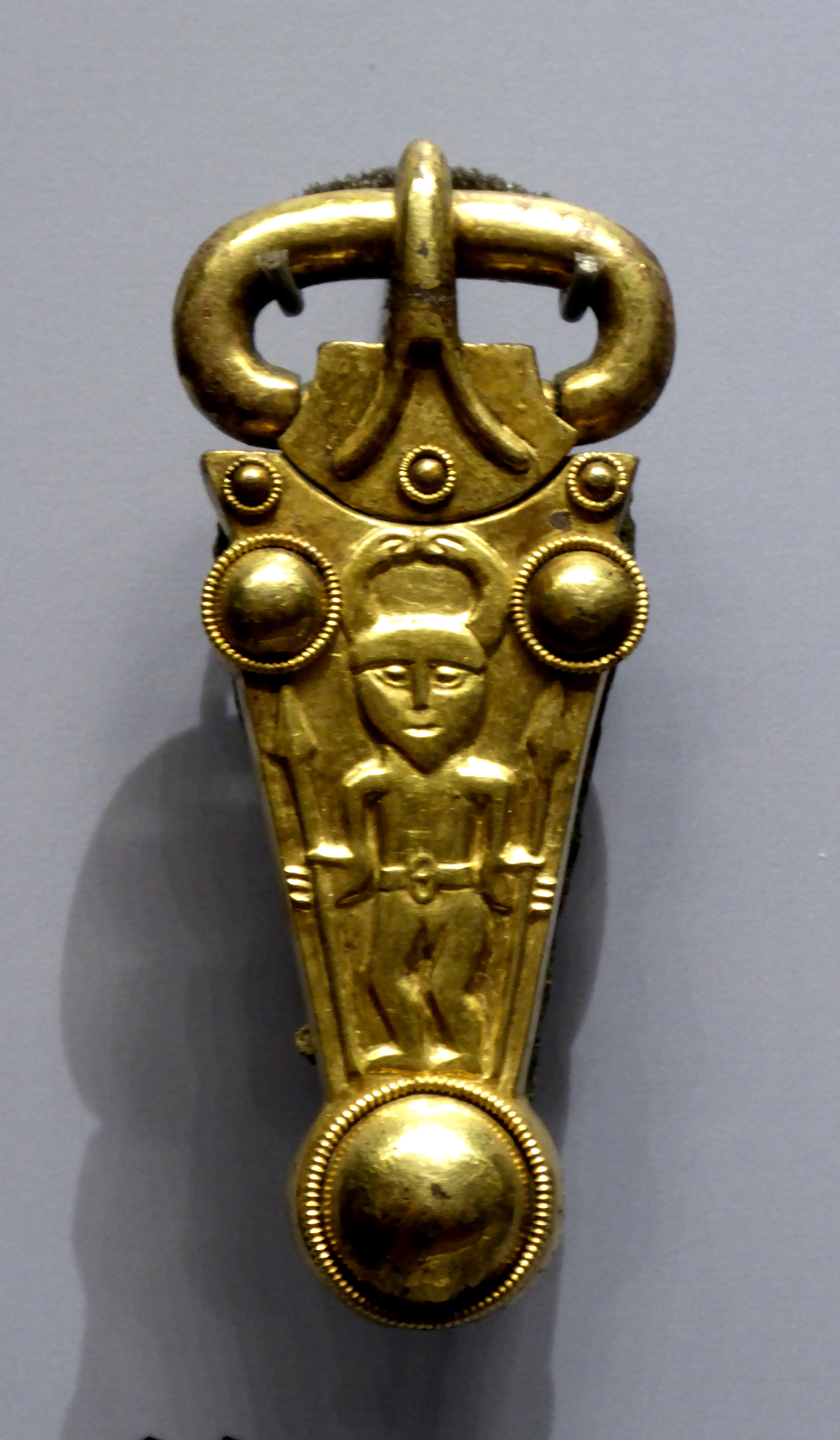 Buckle found in an Anglo-Saxon cemetery at Finglesham, Kent. On display in the Ashmolean Museum (LI326.23).